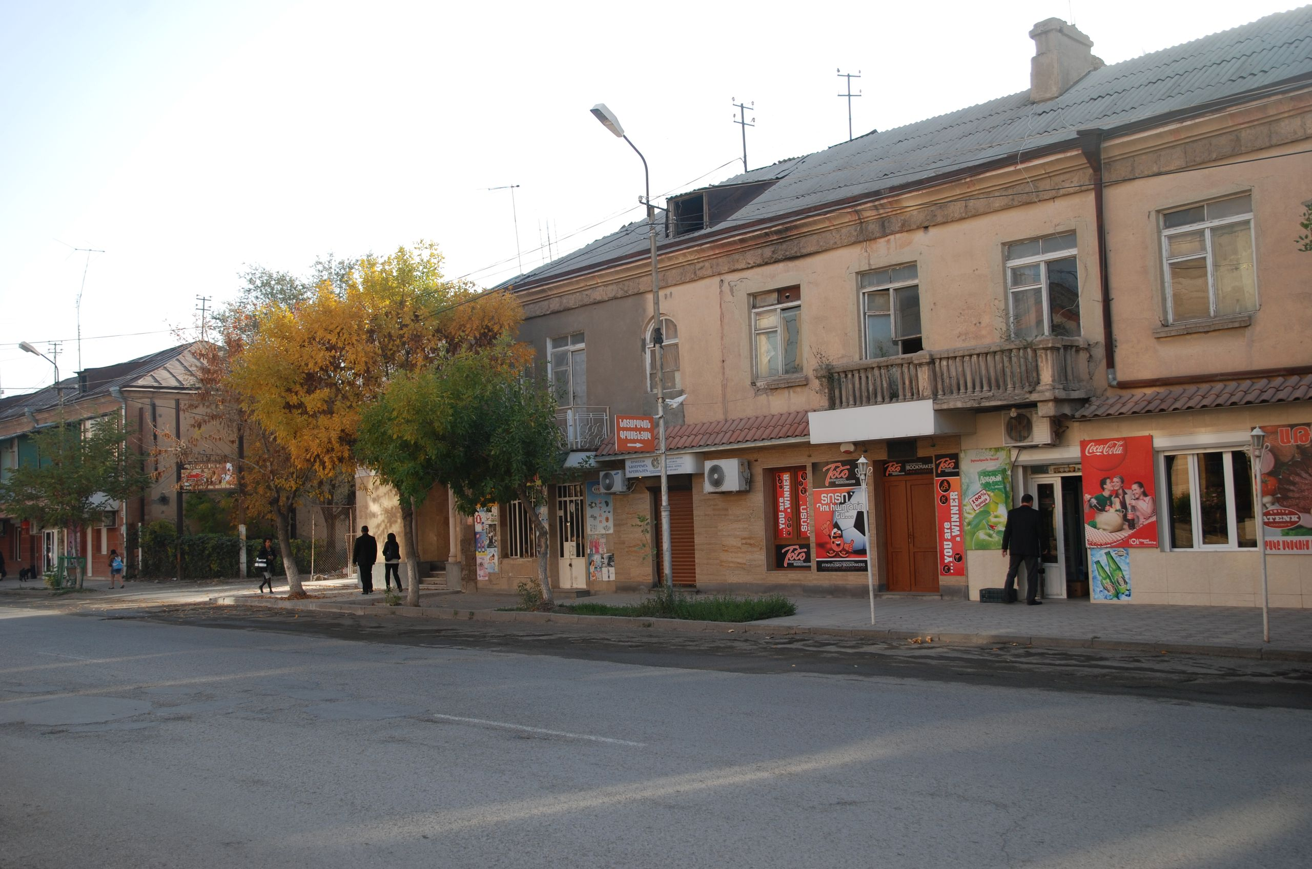 Artashat, center